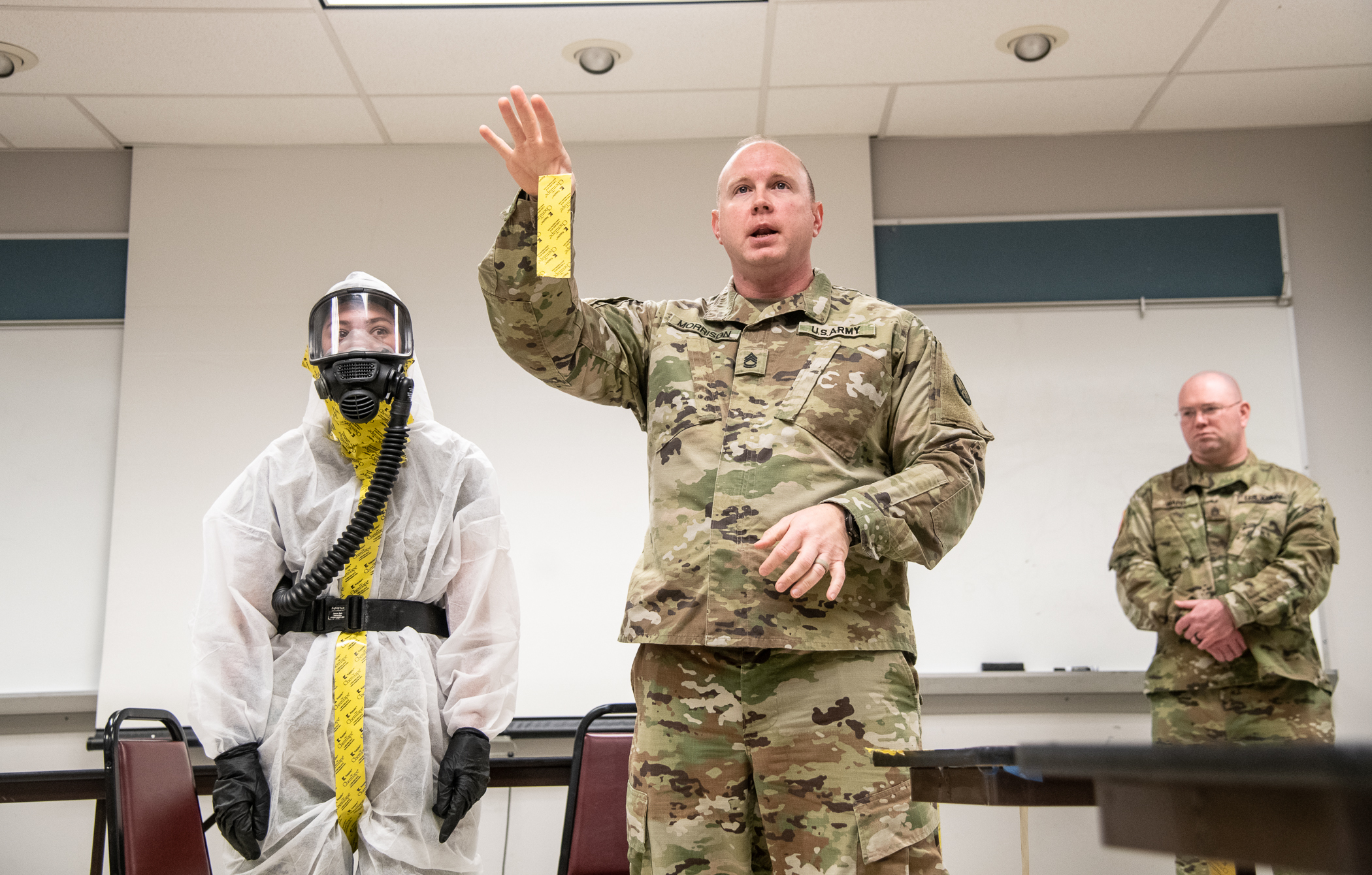 Members of the West Virginia National Guard's (WVNG) Chemical, Biological, Radiological, Nuclear and High Yield Explosive (CBRNE) Battalion, 35th Civil Support Team (CST) and the 35th CBRN Enhanced Response Force Package (CERFP) provide hands-on personal protective equipment (PPE) instruction to members of first responder agencies from Kentucky and West Virginia, March 16, 2020, in Huntington, W.Va. The just-in-time training was conducted in order to educate first responders on how to minimize cross-contamination through the proper wear of, “donning” and the procedures for “doffing” PPE. (U.S. Army National Guard photo by Edwin L. Wriston)